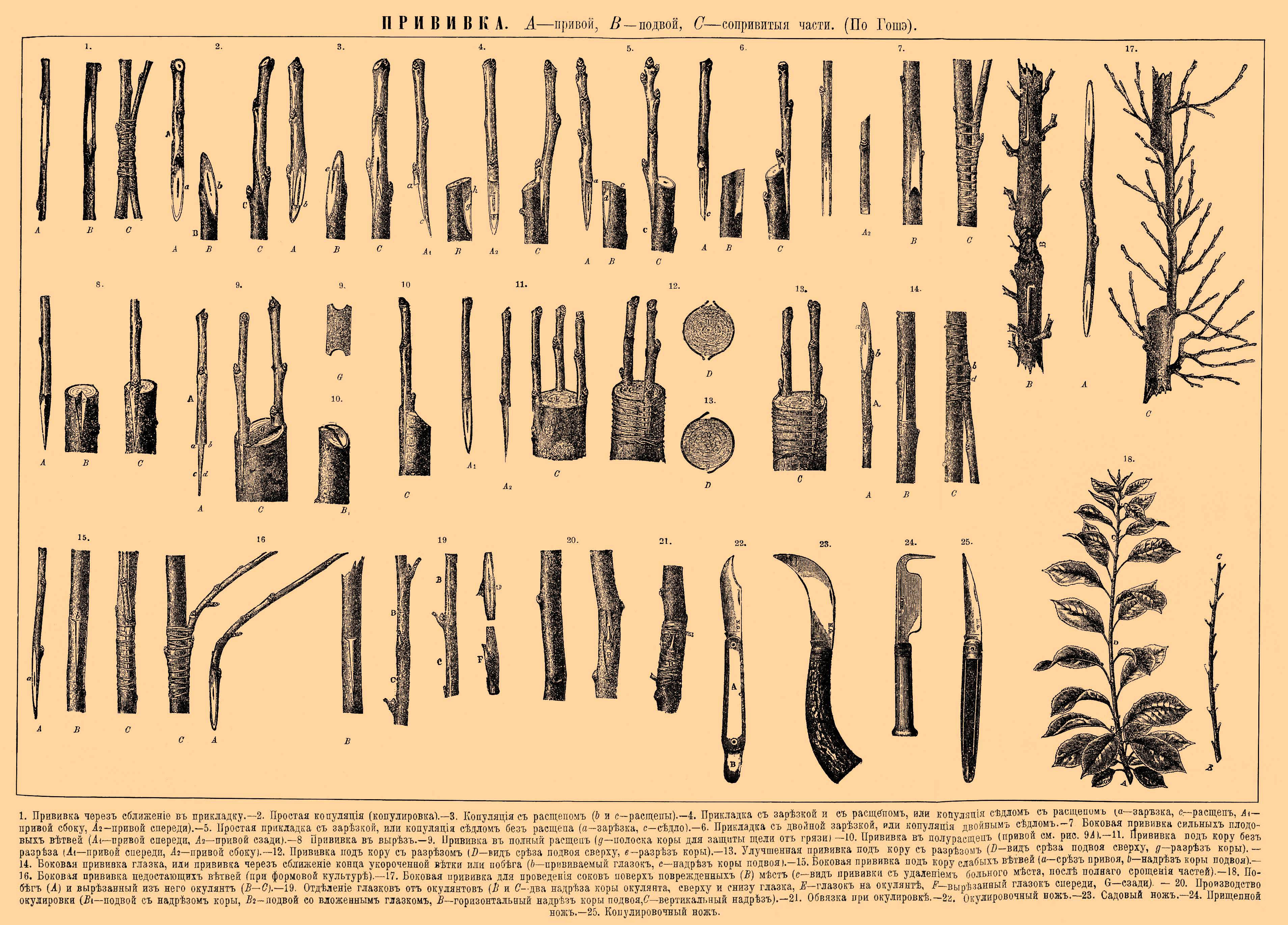 Illustration from Brockhaus and Efron Encyclopedic Dictionary (1890—1907)